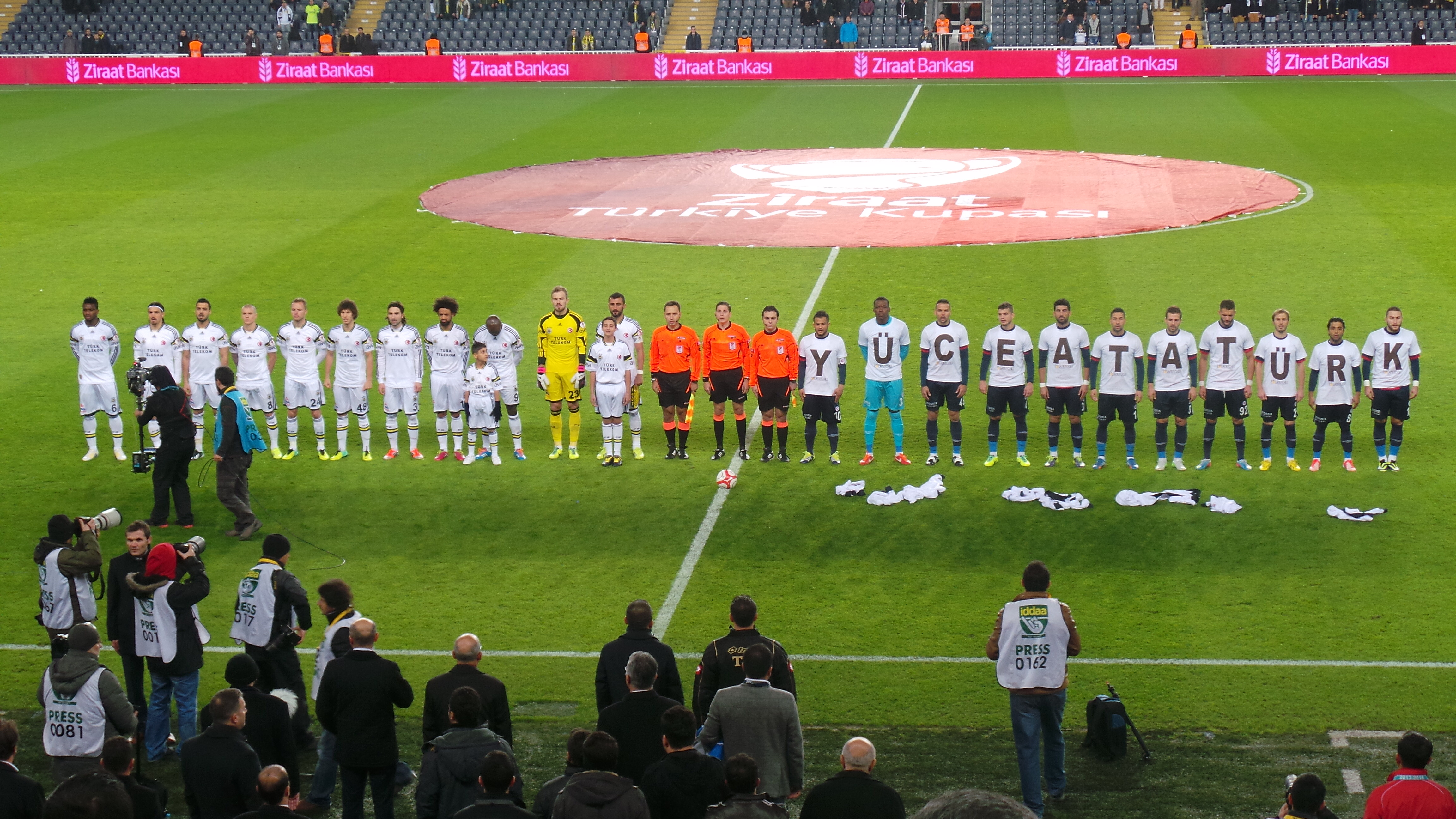 Fenerbahçe Fethiye seremoni